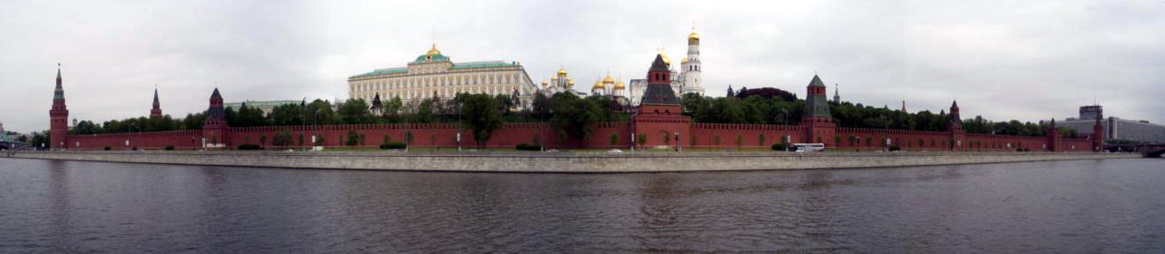 Panorama of the Moscow Kremlin